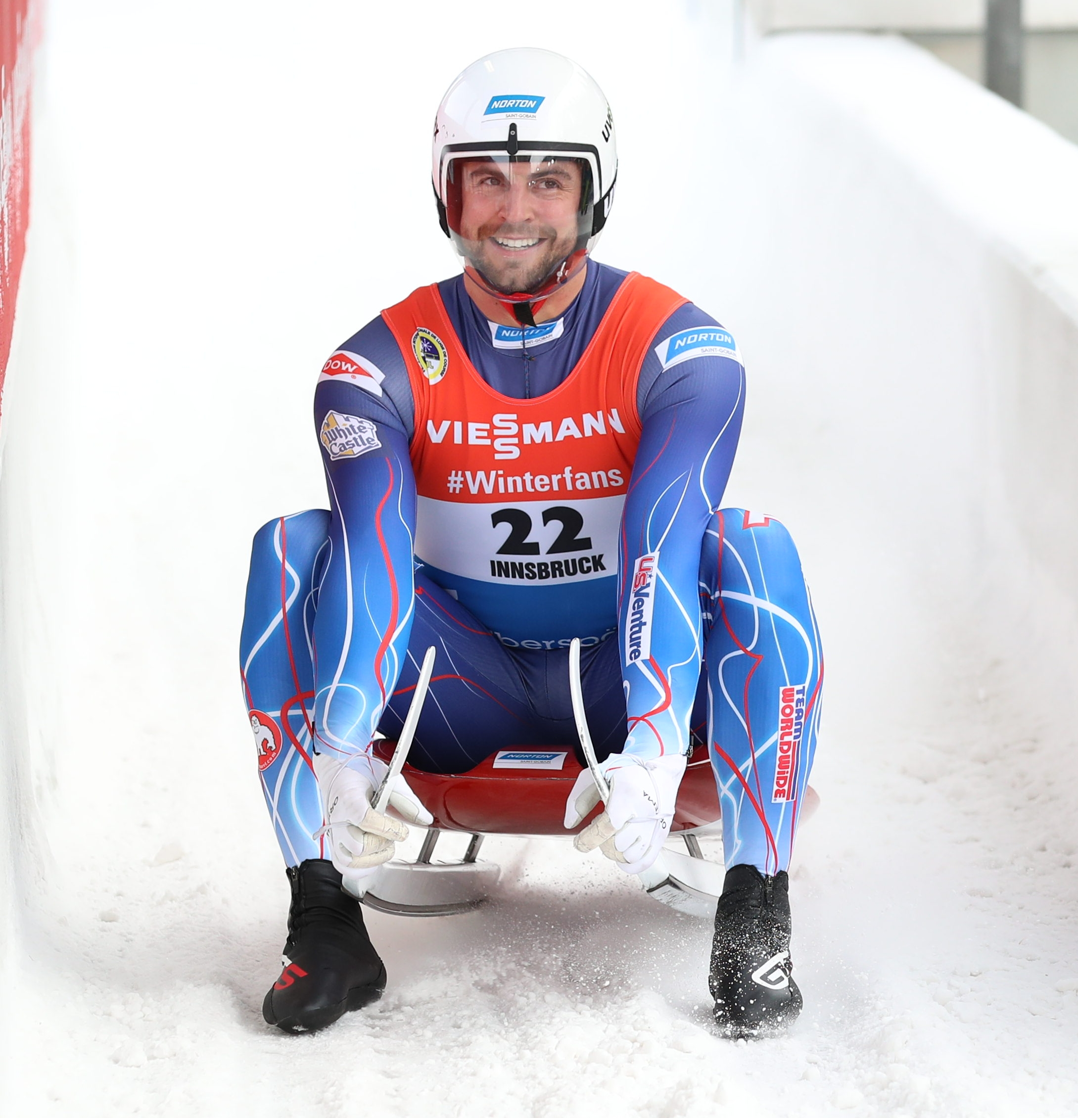 Men's World Cup race at the 2018/19 Luge World Cup in Innsbruck-Igls